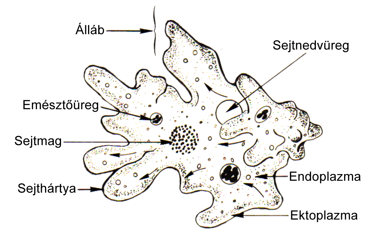 line art drawing of an amoeba with Hungarian captions